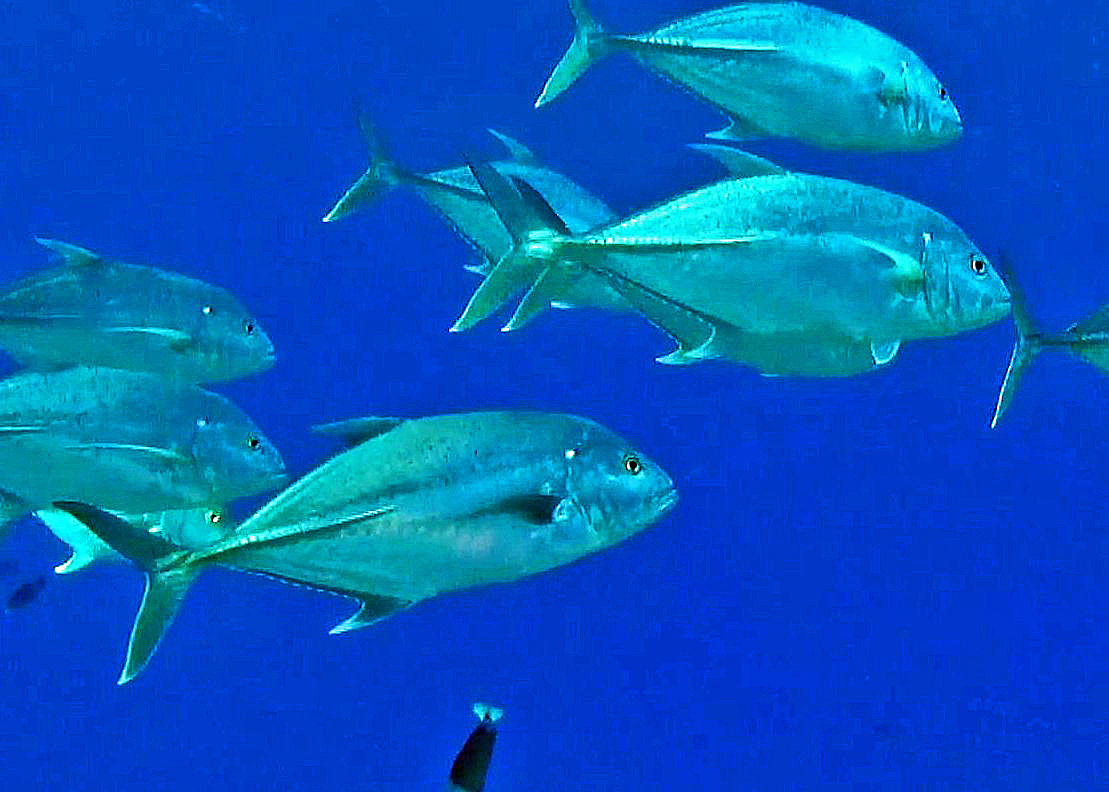 Caranx papuensis from French Polynesia